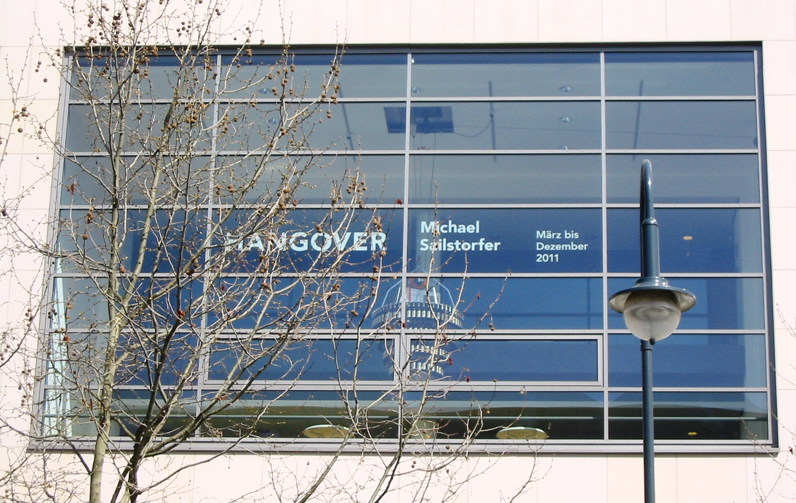 BDI-art windows in Haus der Deutschen Wirtschaft in Berlin-Mitte